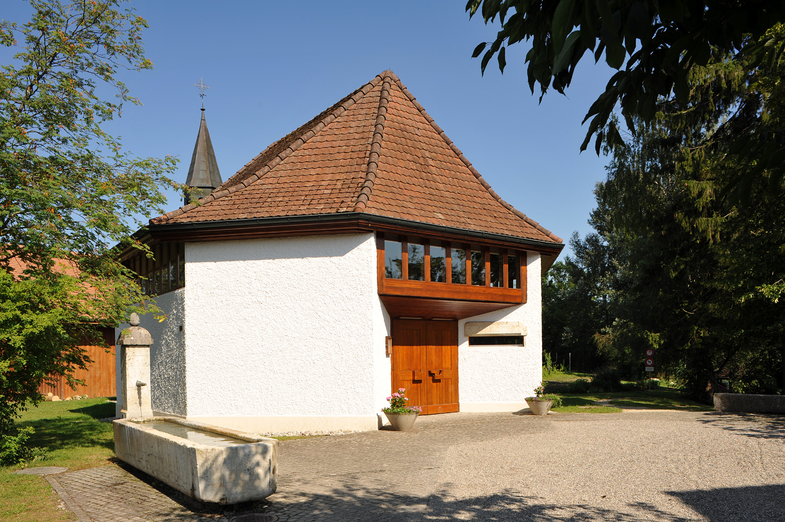 The Roman Catholic chapel St. Niklaus in Staad near Grenchen; Solothurn, Switzerland.